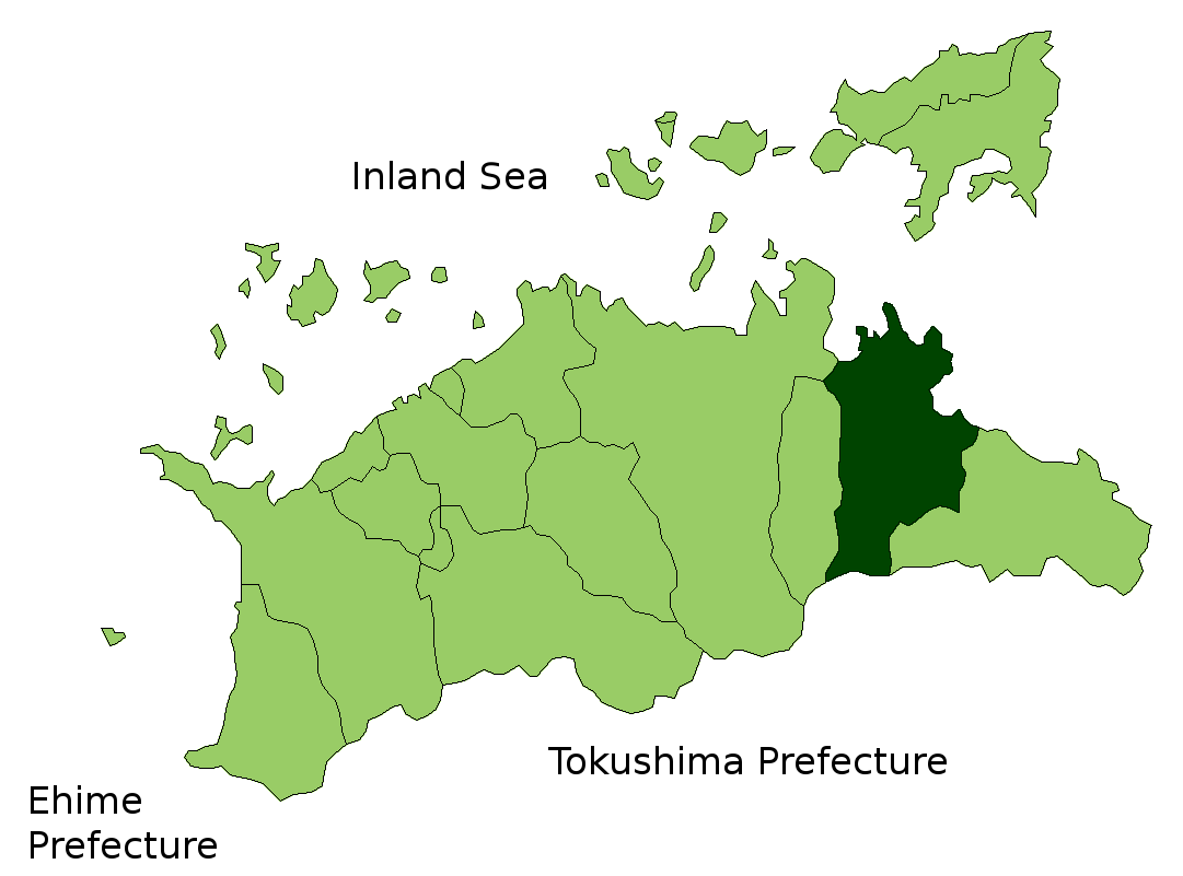 Map of Kagawa Prefecture highlighting Sanuki city. Borders of map as of October, 2006. (blank map used from [1]) See also Image:KagawaMapCurrent.png